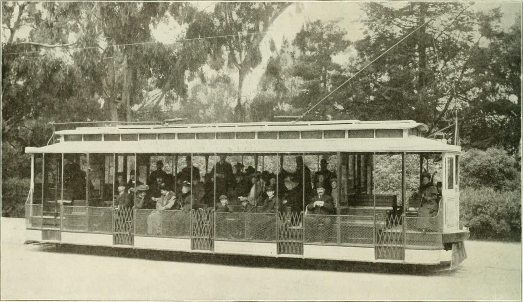 «The observation car “Golden Gate”» (original caption) Title: The street railway review Year: 1891 (1890s) Authors: American Street Railway Association Street Railway Accountants' Association of America American Railway, Mechanical, and Electrical Association Subjects: Street-railroads Publisher: Chicago : Street Railway Review Pub. Co